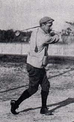 A circa 1905 photograph of English-American professional golfer Bernard Nicholls. He beat Harry Vardon twice in exhibition matches in 1900 when no other golfer in North America could.